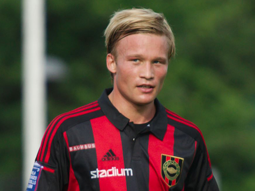 Allsvenskan IF Brommapojkarna-Malmö FF at Grimsta IP